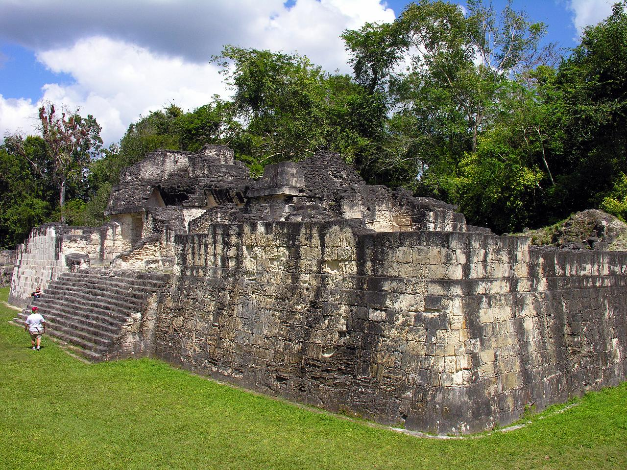 At the eastern end of the Central Acropolis there is a very special structure that had an extraordinary history. This building is now known as 5D-46, but when it was built around AD 350, or earlier, it was the clan house of Jaguar Claw family whose name identified a bloodline and dynasty lasting through to the very demise of Tikal, Guatemala.